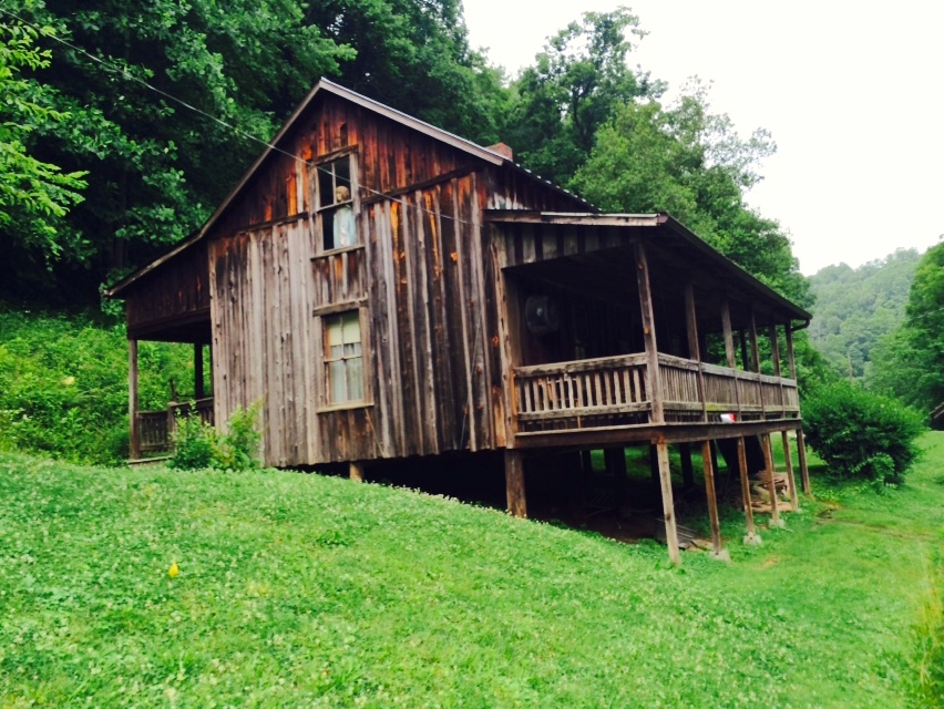 The childhood home of Loretta Lynn and Crystal Gayle in June 2014.